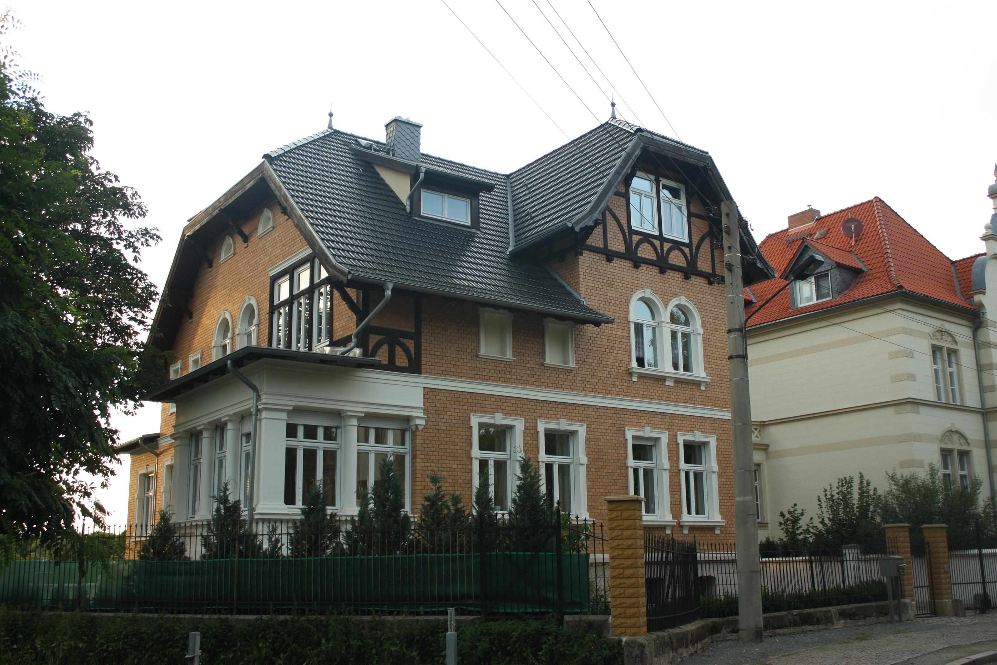 This is a photograph of an architectural monument.It is on the list of cultural monuments of Quedlinburg Billungstraße (Quedlinburg)